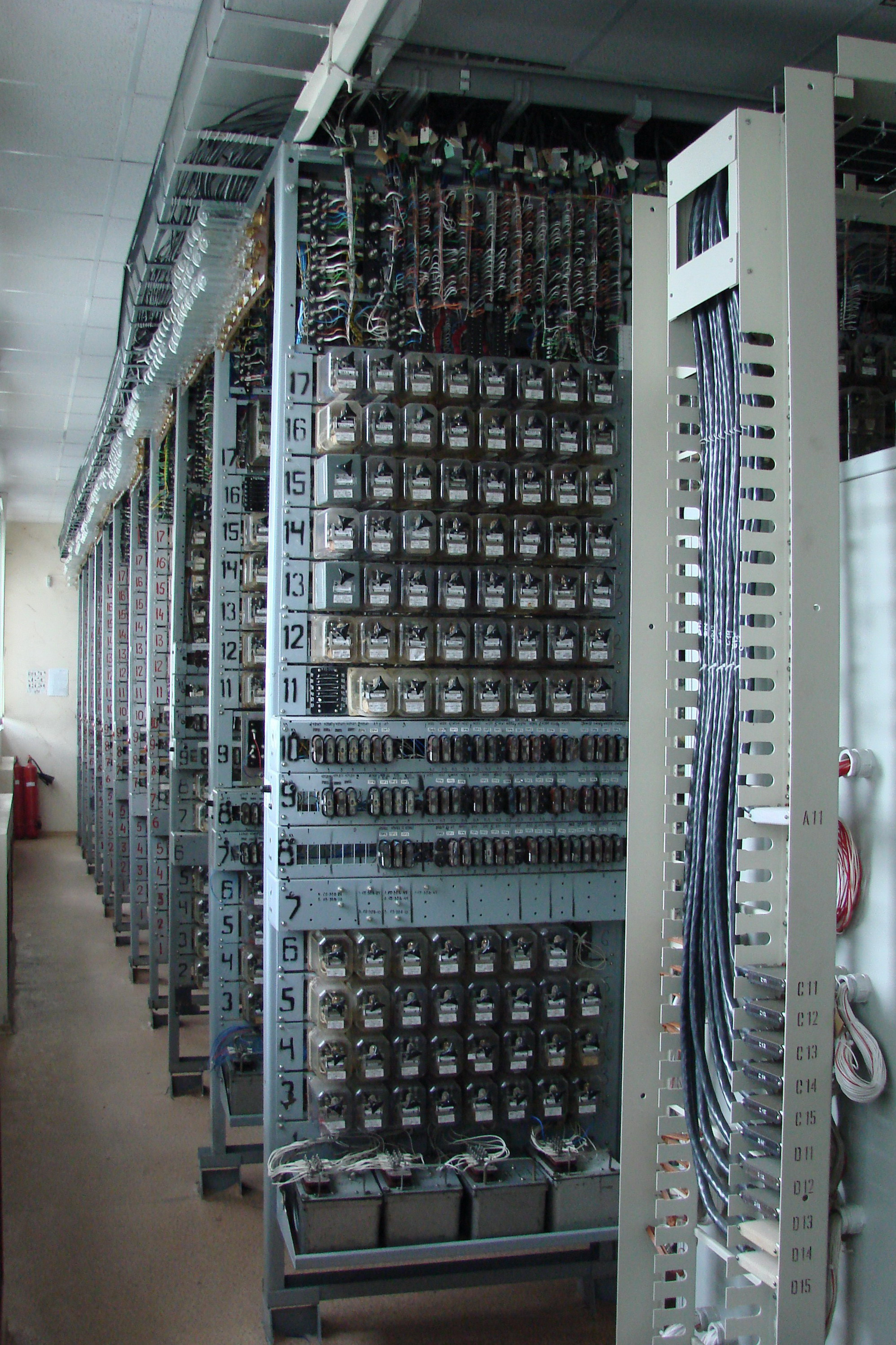 Russian Railways. Electromagnetic relays in the relay room at the «building of Electric Centralization»